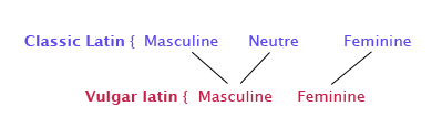 Grammatical genders in Classic Latin and Vulgar Latin.